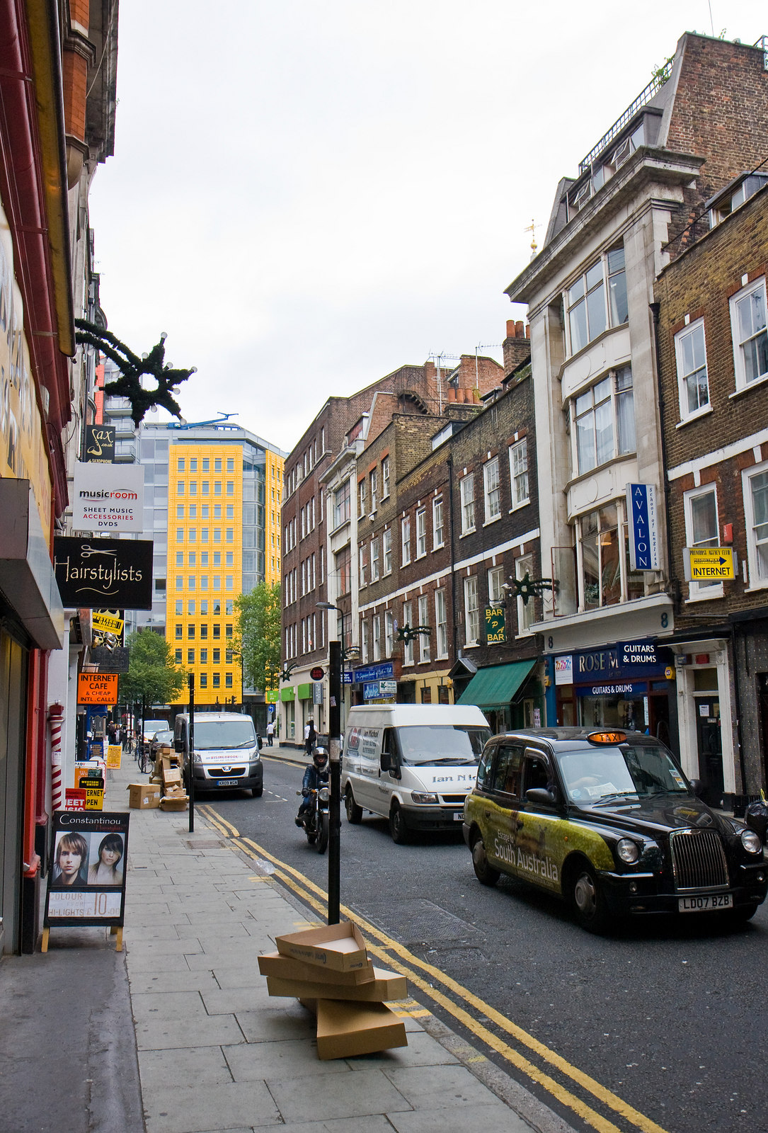 Denmark Street This short road connecting St. Giles High Street with Charing Cross Road lies at the heart of London's music centre. Many of the shops sell instruments and sheet music. The cardboard boxes in the foreground provide evidence of a recent delivery of guitars. The bright yellow building at the end of the street is part of the Central St. Giles development.